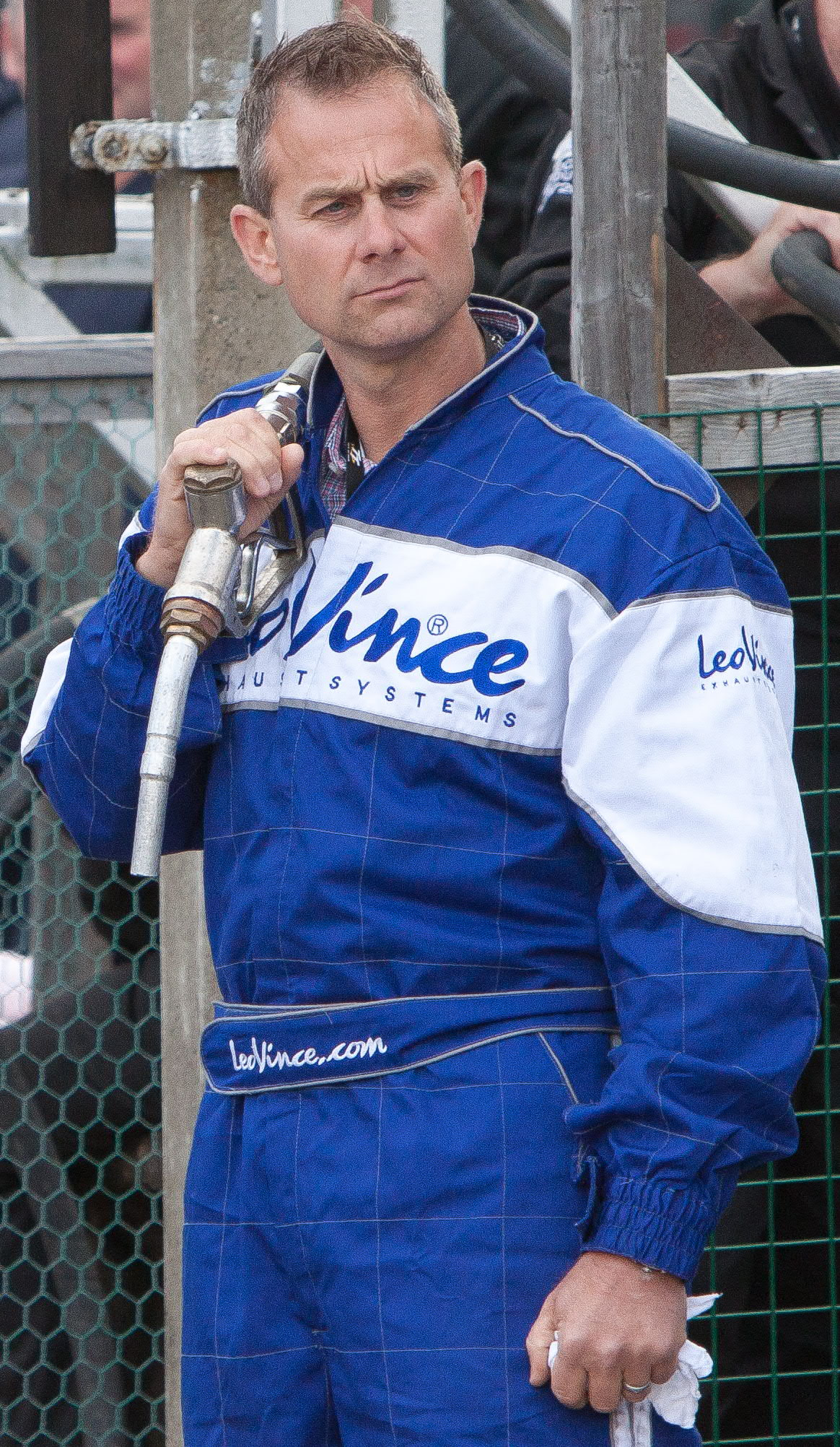 Former racer turned motorcycle TV commentator James Whitham as part of a Lightweight TT event refuelling crew in 2012